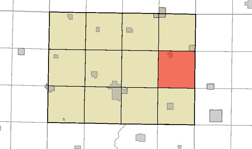 This is a map of Humboldt County, Iowa, USA which highlights the location of Lake Township.